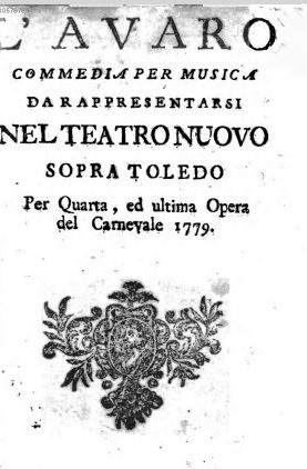 Cover of the libretto for Pasquale Anfossi's opera L'avaro, printed in 1779 for a performance at the Teatro Nuovo sopra Toledo in Naples. The libretto was first published in 1775 for the opera's world premiere in Venice.